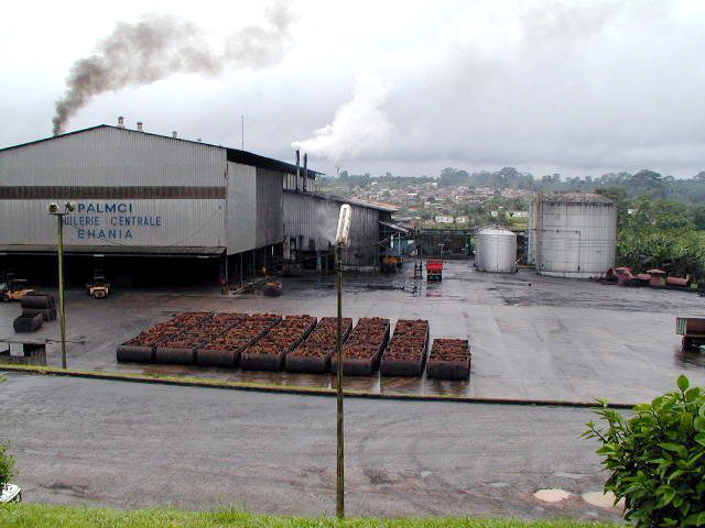 Palm oil factory, Aboisso, Cote D'Ivoire. Metadata Image Title Palm Oil Factory File Name palm_oilfac_ci.jpg Date/Time 2002-07-23 00:00:00.0 Crop/Other Palm oil City/Province Aboisso Country Cote D'Ivoire Latitude 5.20 Longitude -3.02 Elevation not available